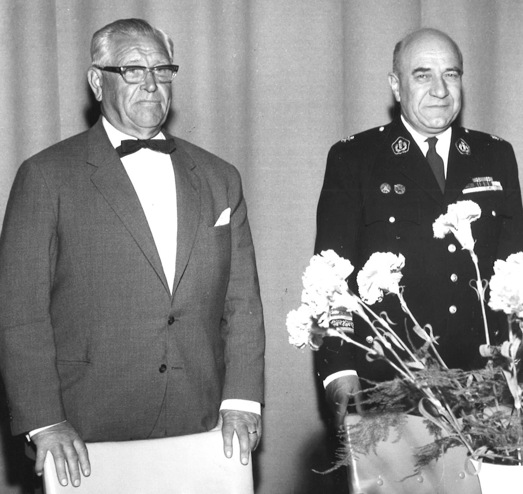 Photograph of the retirement feast of Georg Malmsten. To the right, police officer Veikko Hietalahti.